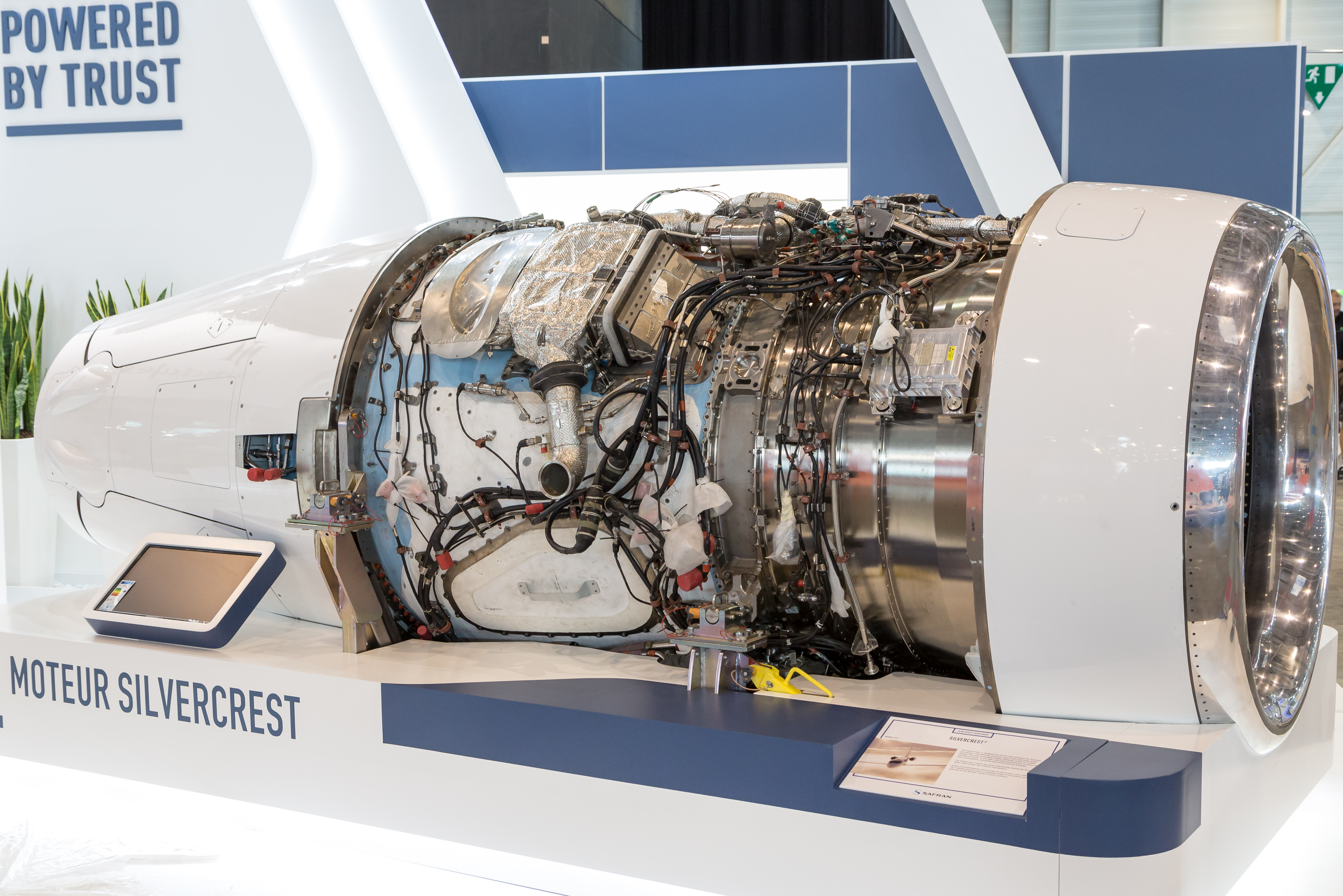 Safran Silvercrest engine at EBACE 2018, Le Grand-Saconnex